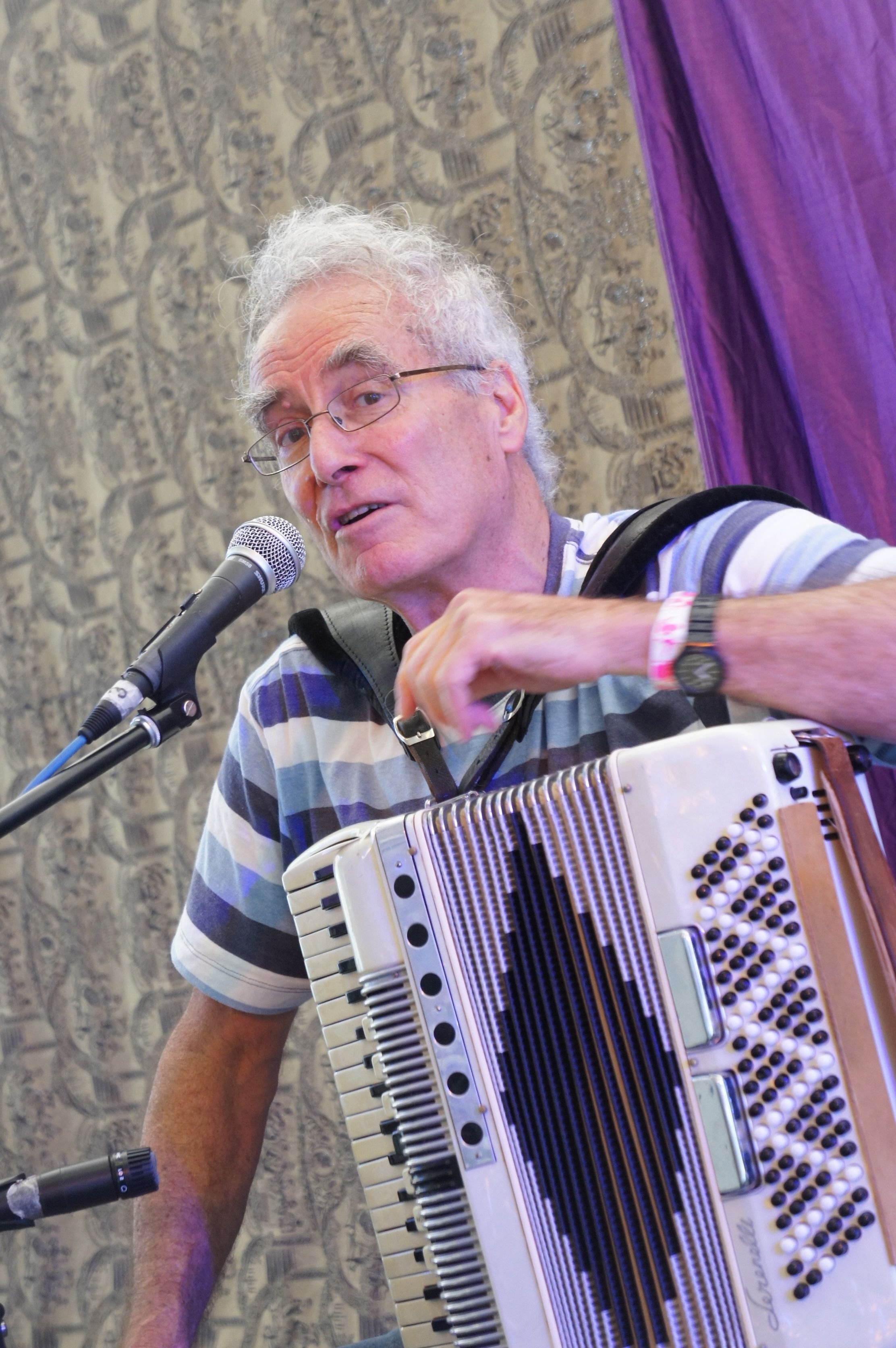 Folklorist, collector, bush & folk musician, yarnspinner